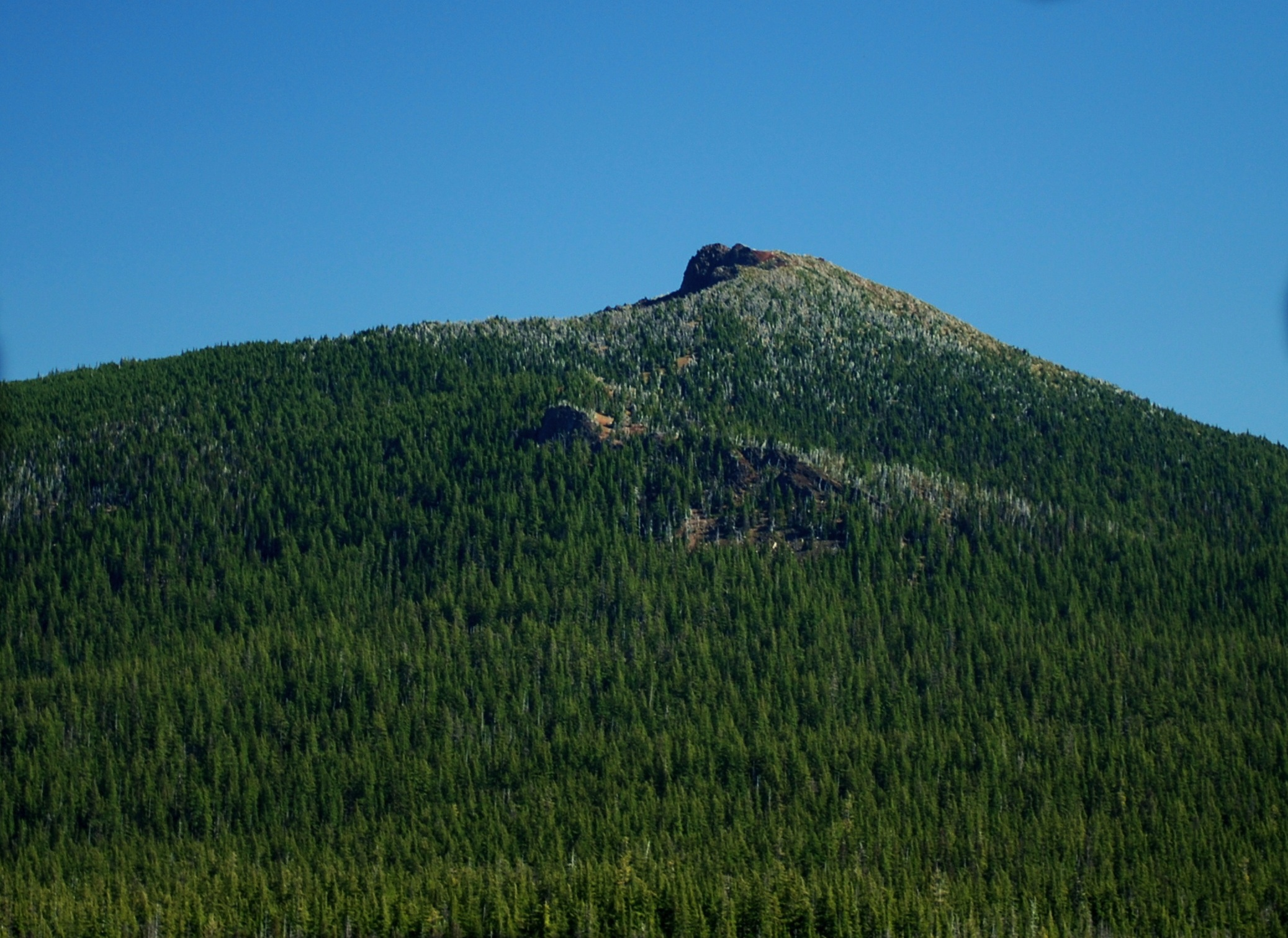 Black Crater, a young volcano in Deschutes County, Oregon, as seen from the Dee Wright Observatory